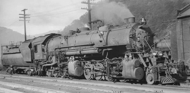 Baltimore and Ohio 2-8-8-0 No. 7109